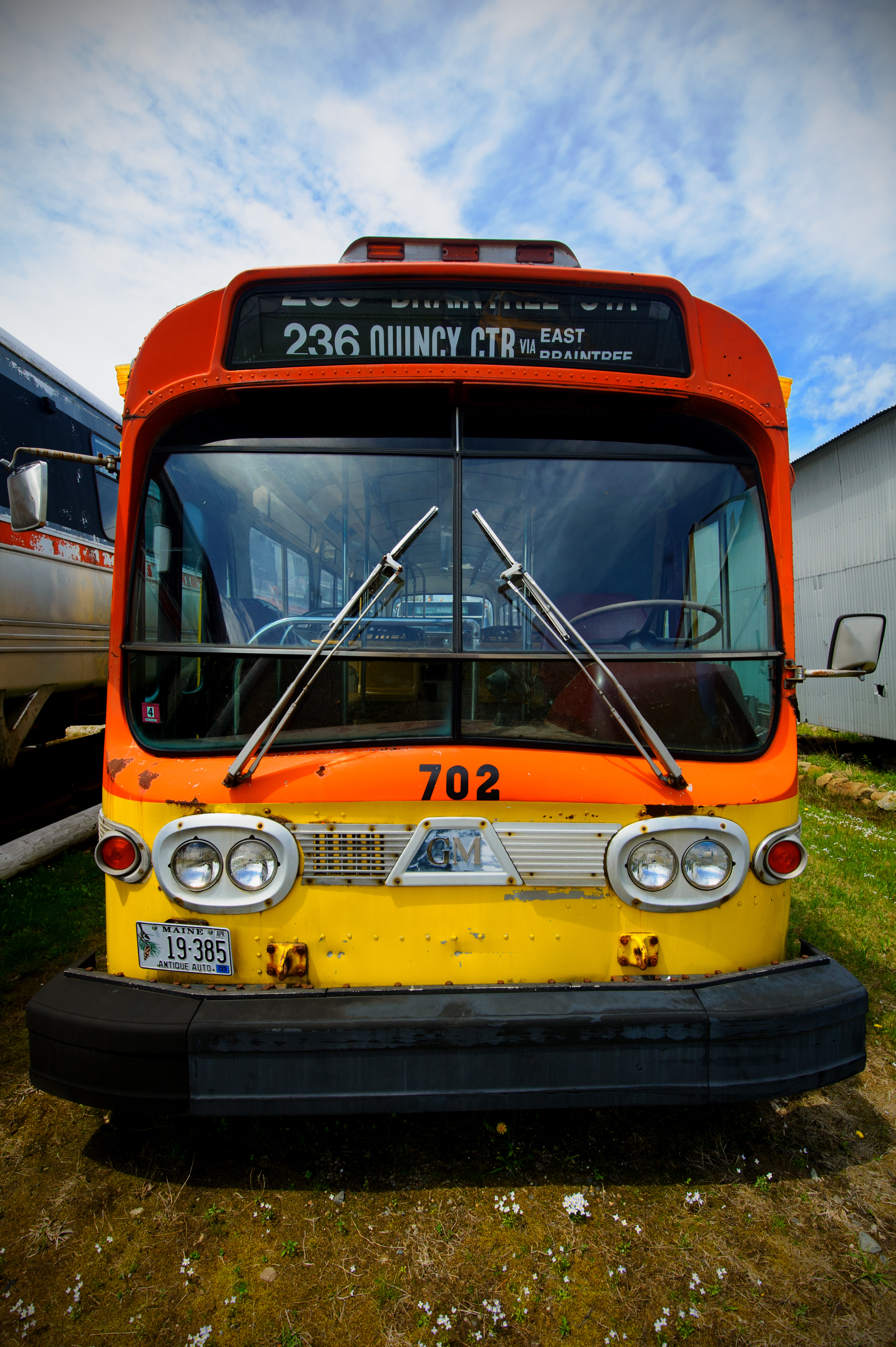 SRTA / Union Street Bus Company #702 at Seashore Trolley Museum in May 2012. It was built for the Eastern Massachusetts Street Railway as GM New Look #3550 and later ran for Short Line before the SRTA takeover. It has a rollsign for MBTA route #236, which was formerly part of the Eastern Mass's Quincy Division.